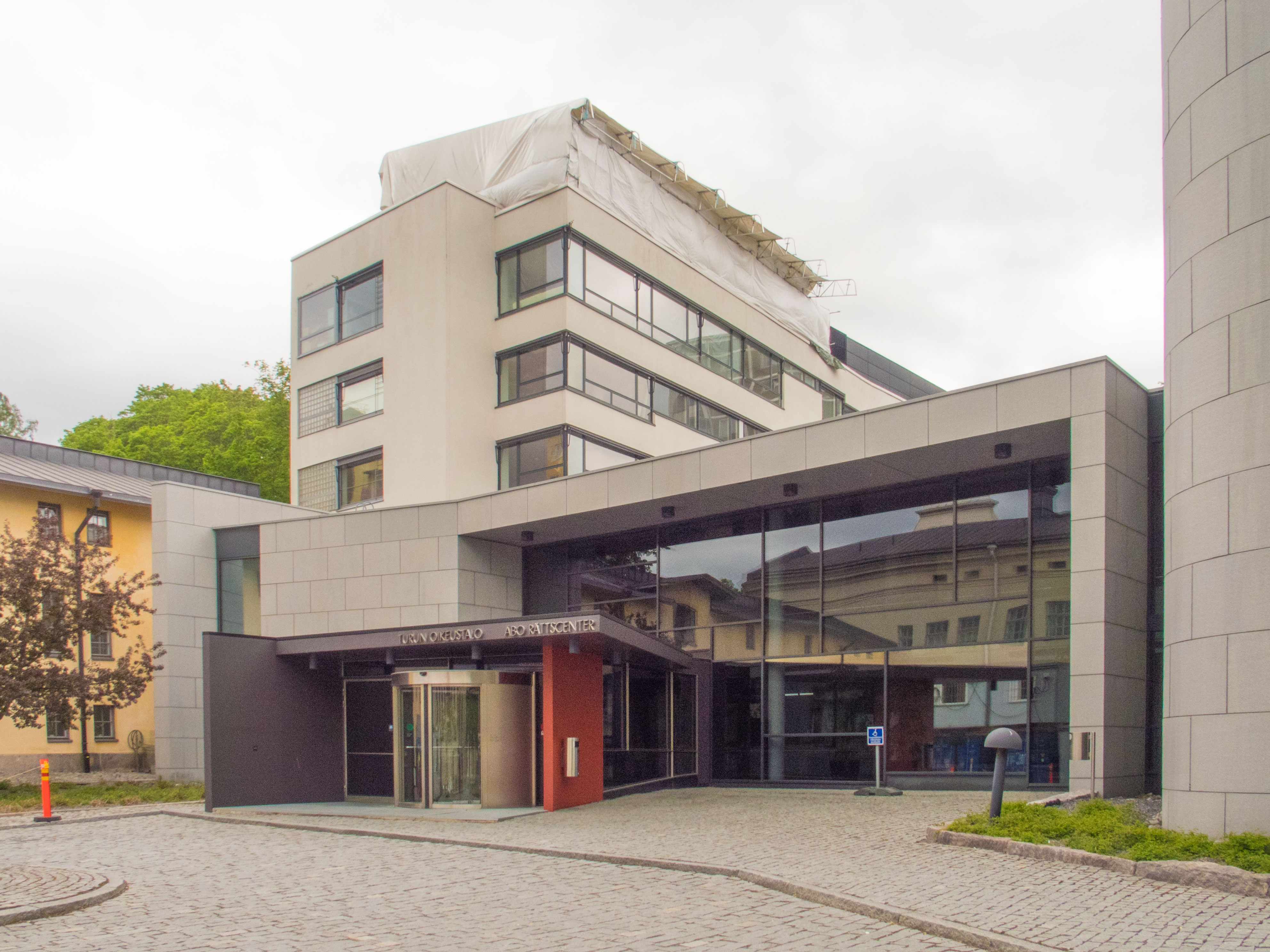 Buildings in Turku